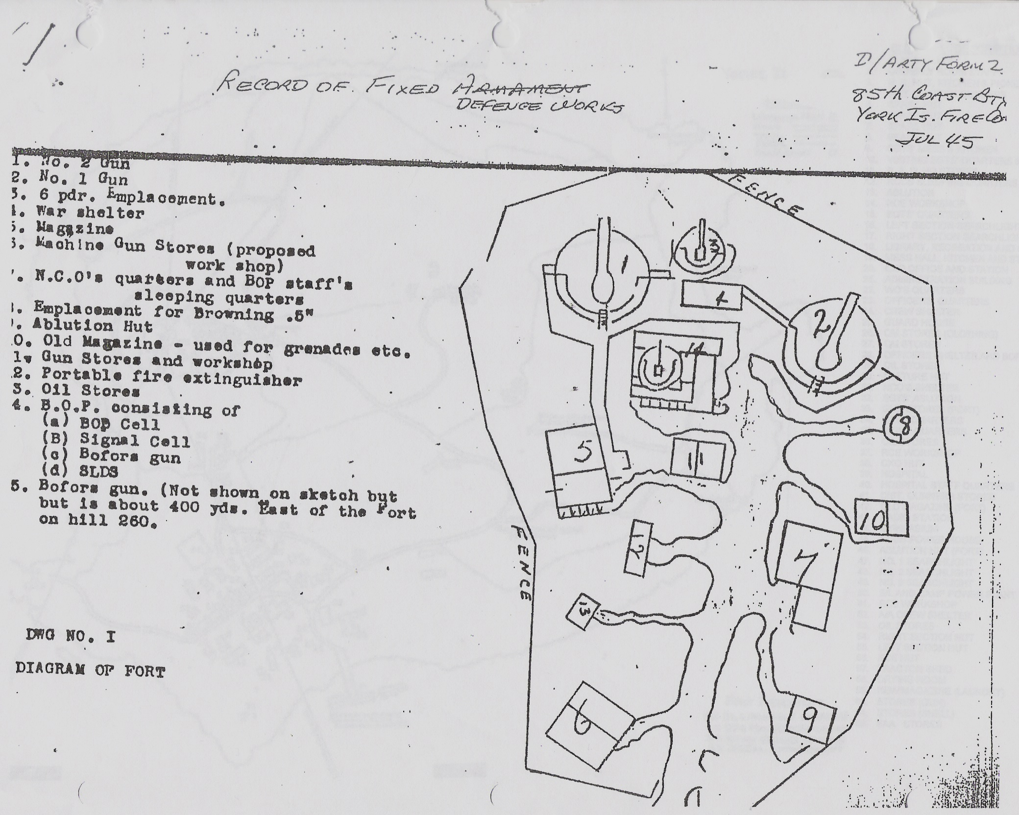 Copy of Schematic of Completed Fort